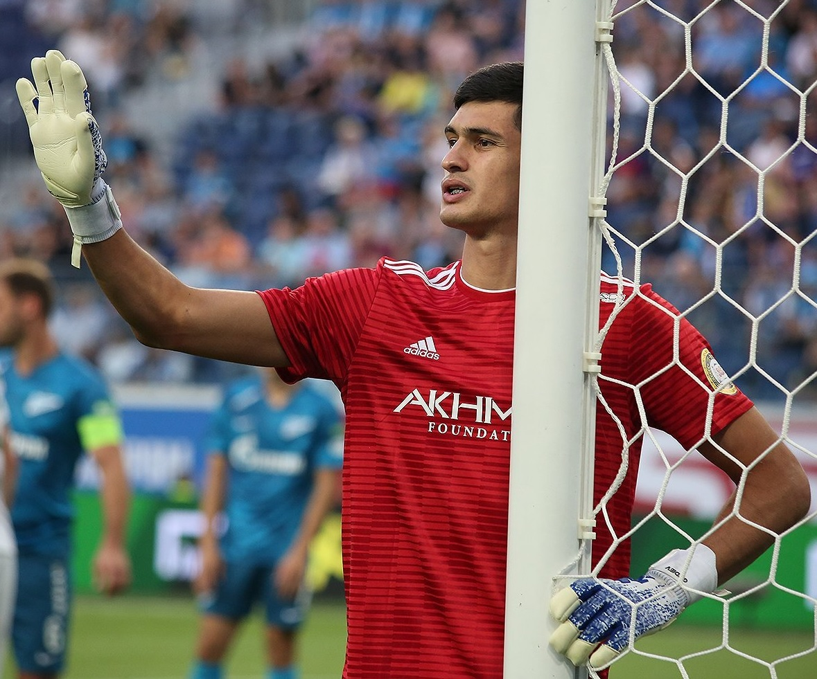 Vitali Gudiyev with FC Akhmat Grozny in a game against FC Zenit Saint Petersburg.